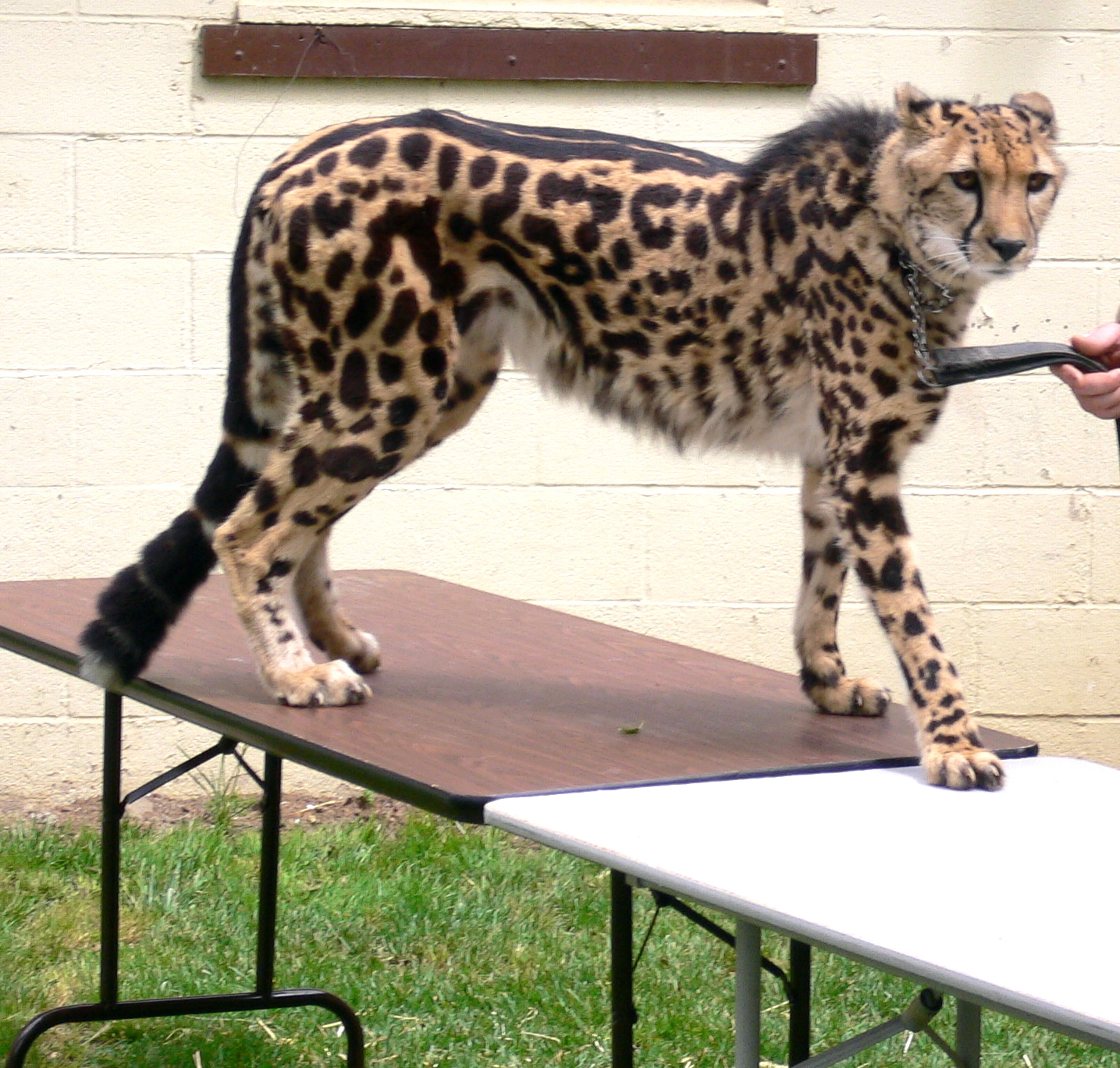 A King Cheetah (merely a colour mutation of the regular cheetah, Acinonyx jubatus).